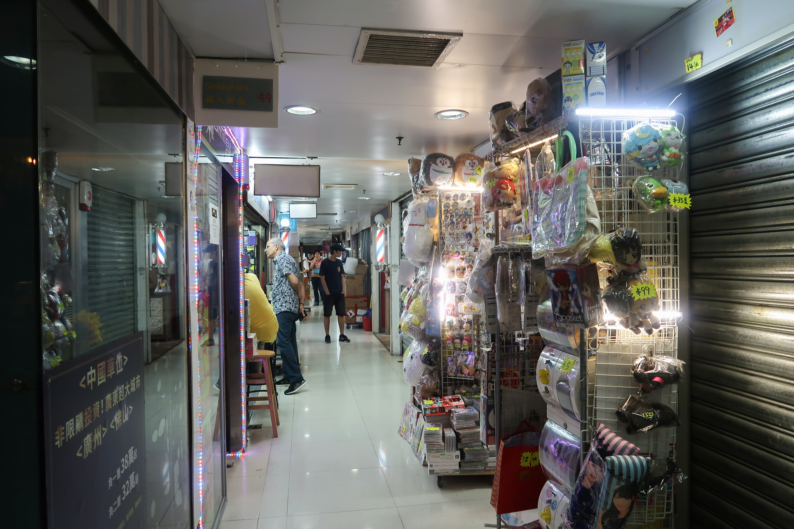 Ho King Shopping Centre Level 1